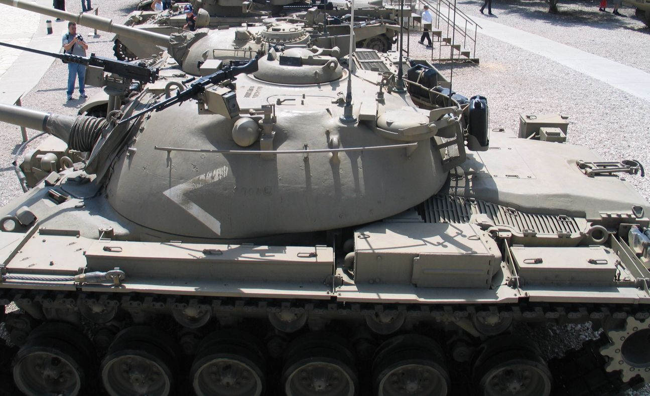 Israeli upgraded M48 Patton tank in Yad la-Shiryon Museum, Israel.